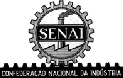 Old SENAI trademark